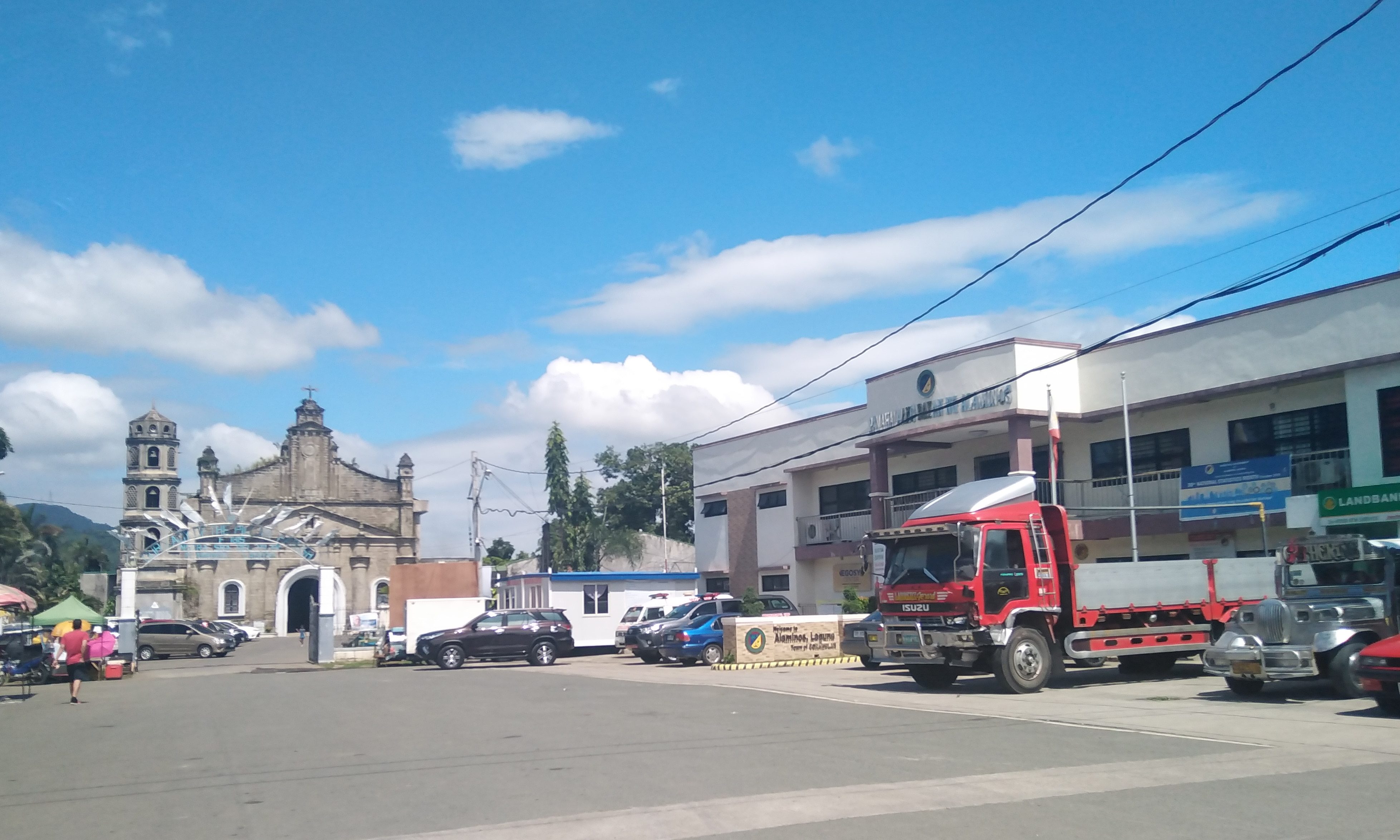 Alaminos Church and Town Hall, Alaminos, Laguna